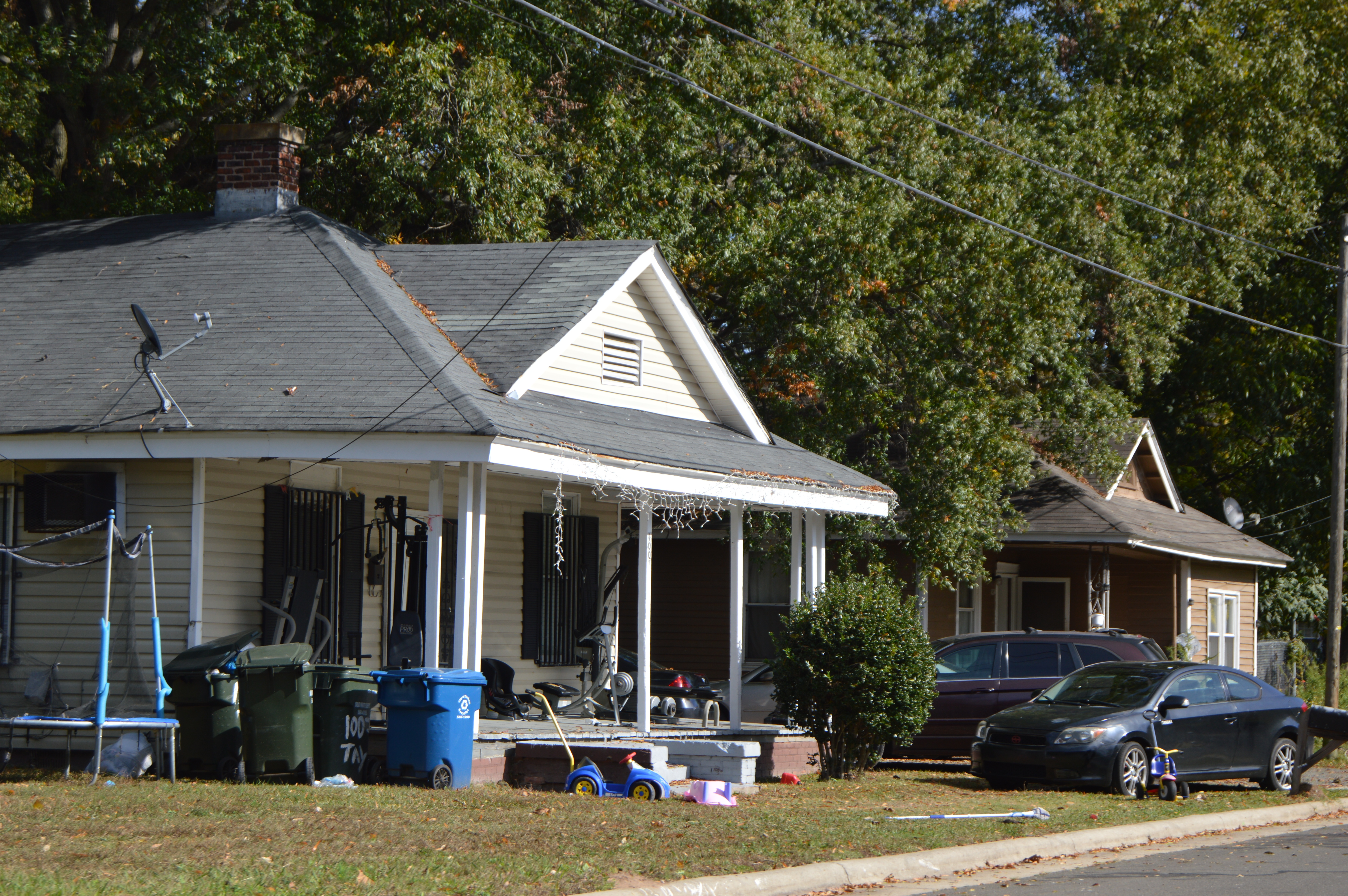 Houses on the northern side of Taylor Street west of Elm Street in Durham, North Carolina, United States. This block is part of the Golden Belt Historic District, a historic district that is listed on the National Register of Historic Places.